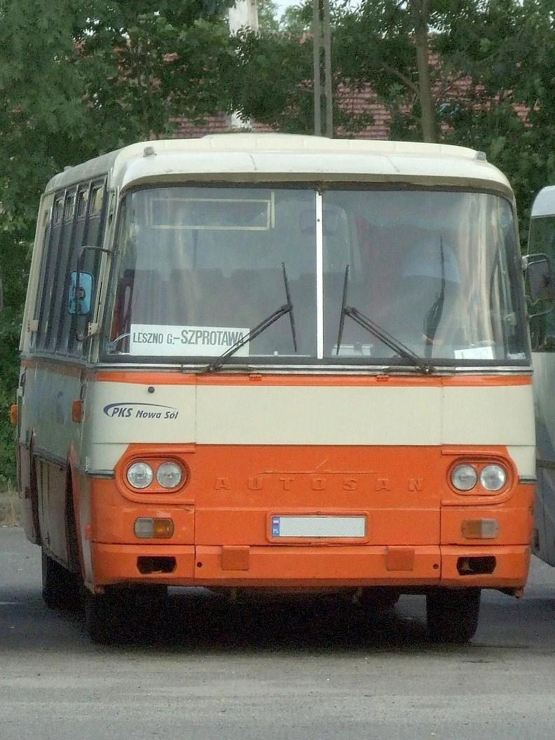 An Autosan H9-21 bus (rej. FNW 24AY) in Lubusz Voivodeship, Poland. PKS Nowa Sól (P.t. Szprotawa) operator.